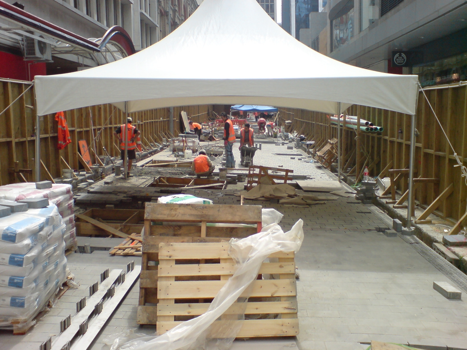 Darby Street being turned into shared space in Auckland, New Zealand.